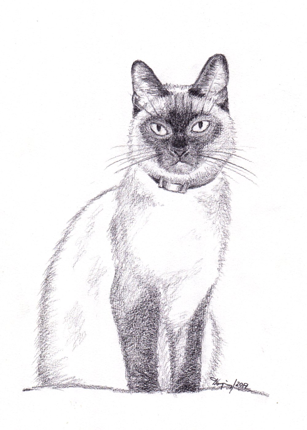 Siamese cat, 1 year old, pencil drawing.